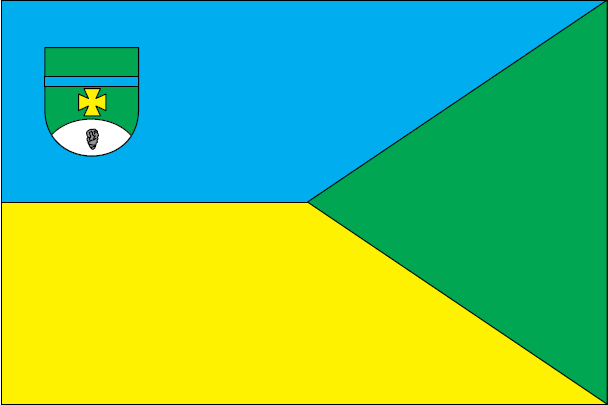 Flag of Domanivskyi rajon